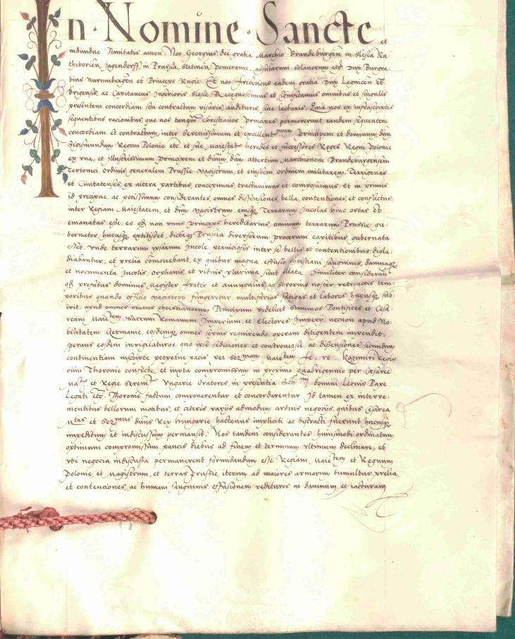 Treaty of Kraków was signed on 8 April 1525 between Kingdom of Poland and the Grand Master of the Teutonic Knights. It officially ended the Polish-Teutonic War.